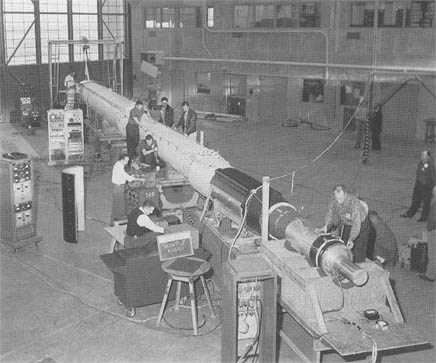 In this photo from December 1960, employees of Vought Astronautics, Scout's prime contractor, work with NASA technicians to prepare ST-3 for launch Unfortunately, this rocket would fail because of a second-stage misfire. L-60-7980.